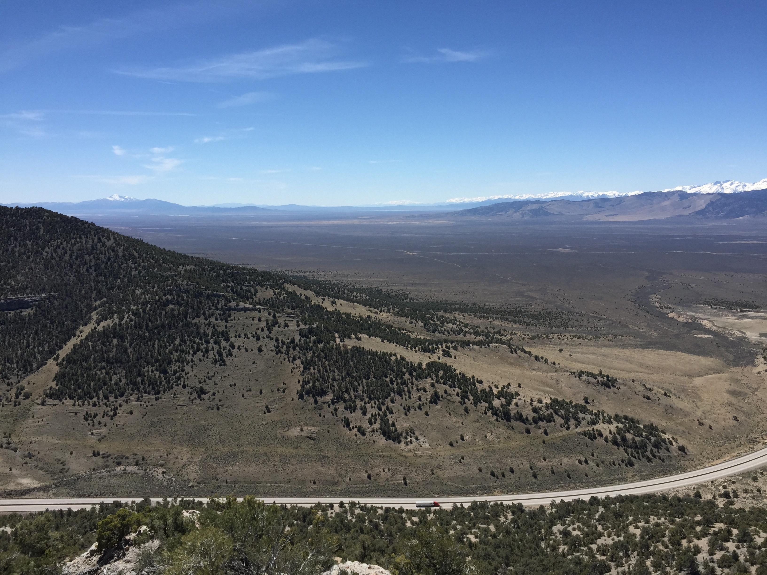 View southwest across Maverick Canyon, Nevada and Interstate 80 and down Independence Valley from cliffs near the west end of the north wall